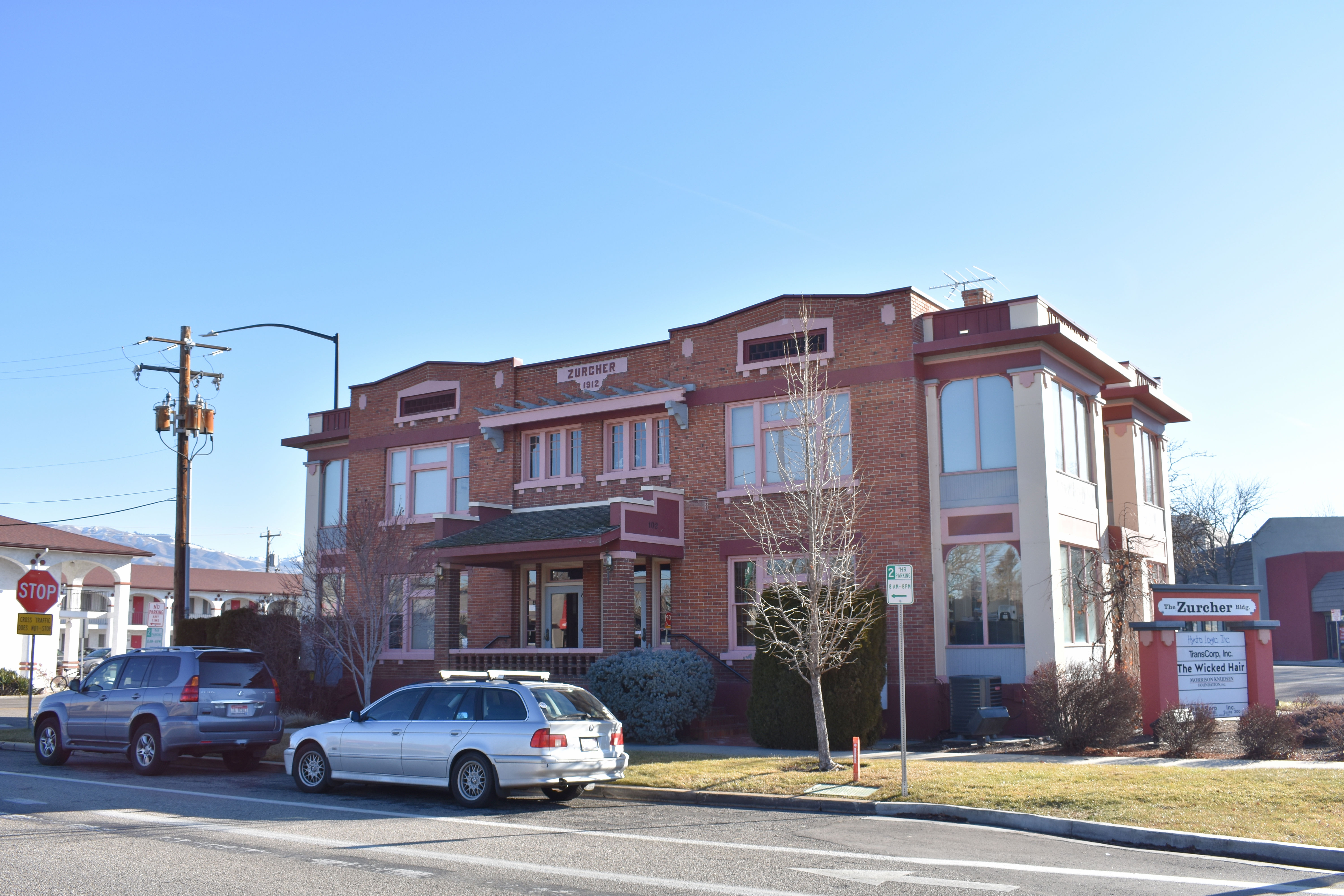 The Zurcher Apartments in Boise, Idaho, was designed by Tourtellotte & Hummel and is listed on the National Register of Historic Places.